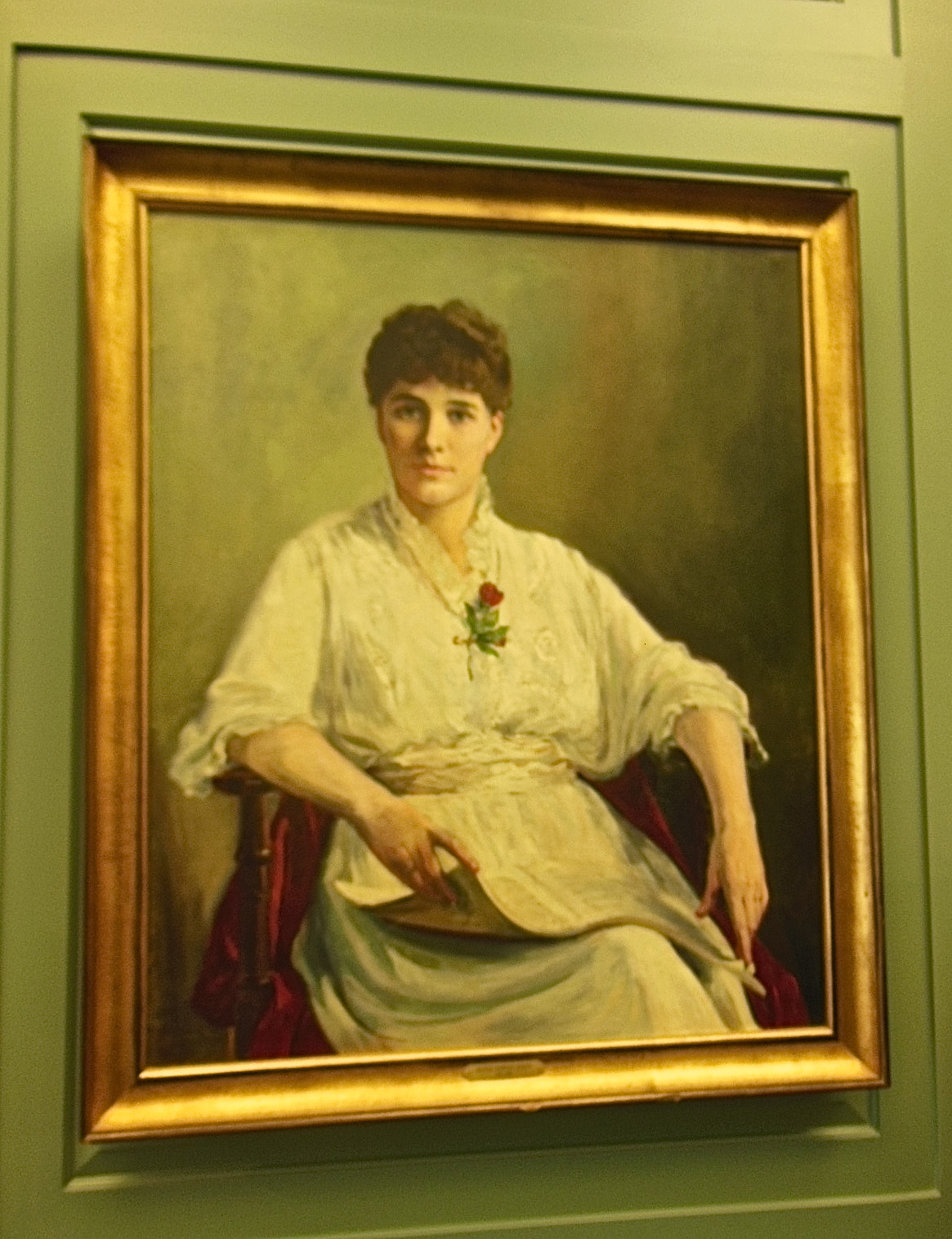 Portrait of Olivia Raney, taken at Olivia Raney Local History Library, Raleigh, North Carolina . This image was uploaded as part of Wikipedia Summer of Monuments. English |+/−